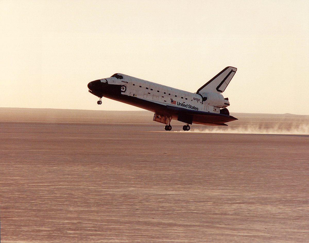 Atlantis touches down at Edwards Air Force Base at the conclusion of mission STS-37.